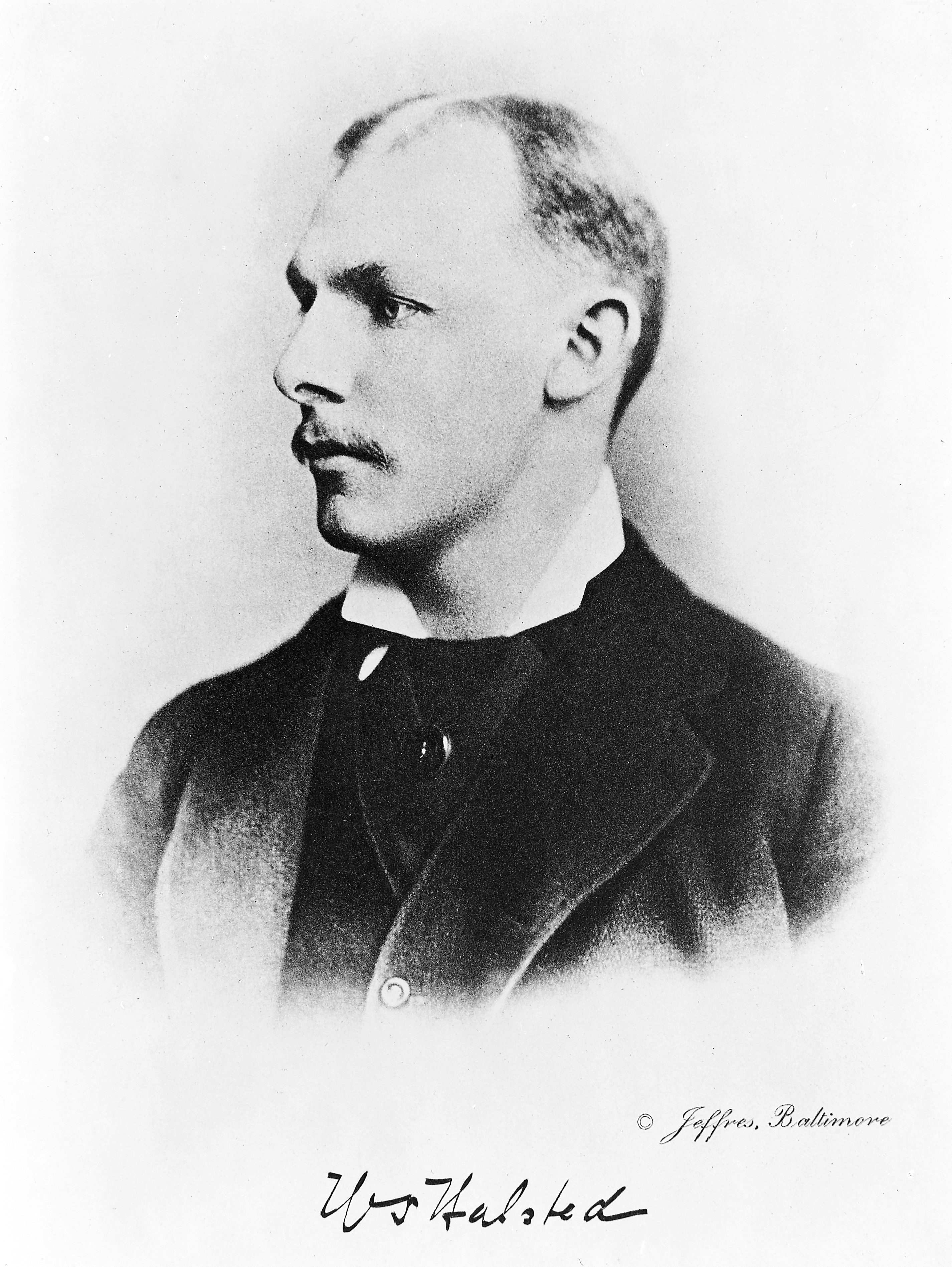 Portrait of W. S. Halsted, head and shoulders. General Collections Keywords: General Surgery